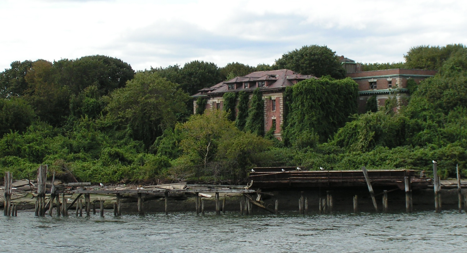 North Brother Island, NY Harbor